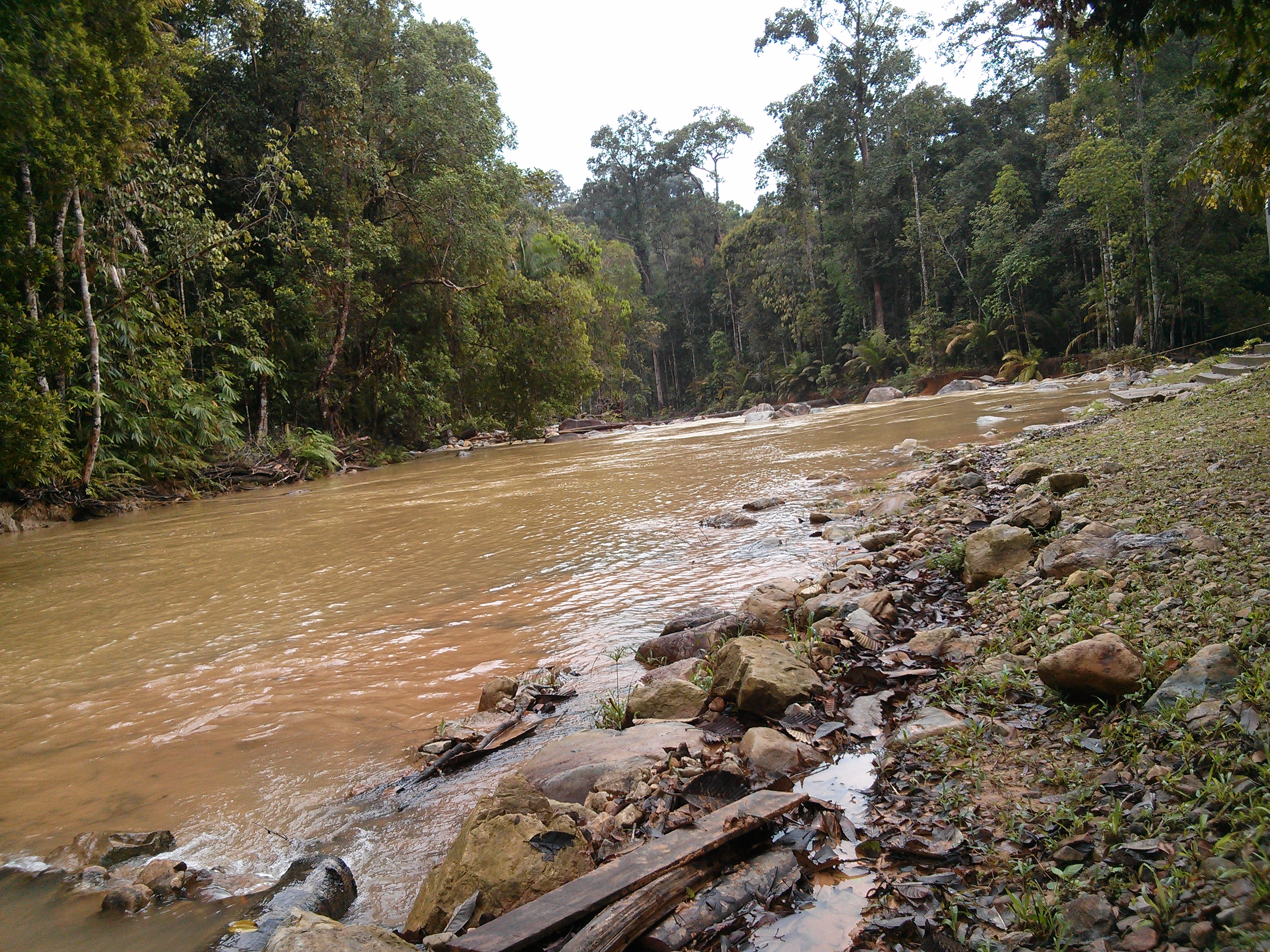 A river in Endau-Rompin National Park, Malaysia